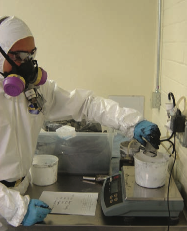 Figure 7. Weighing of carbon nanotubes